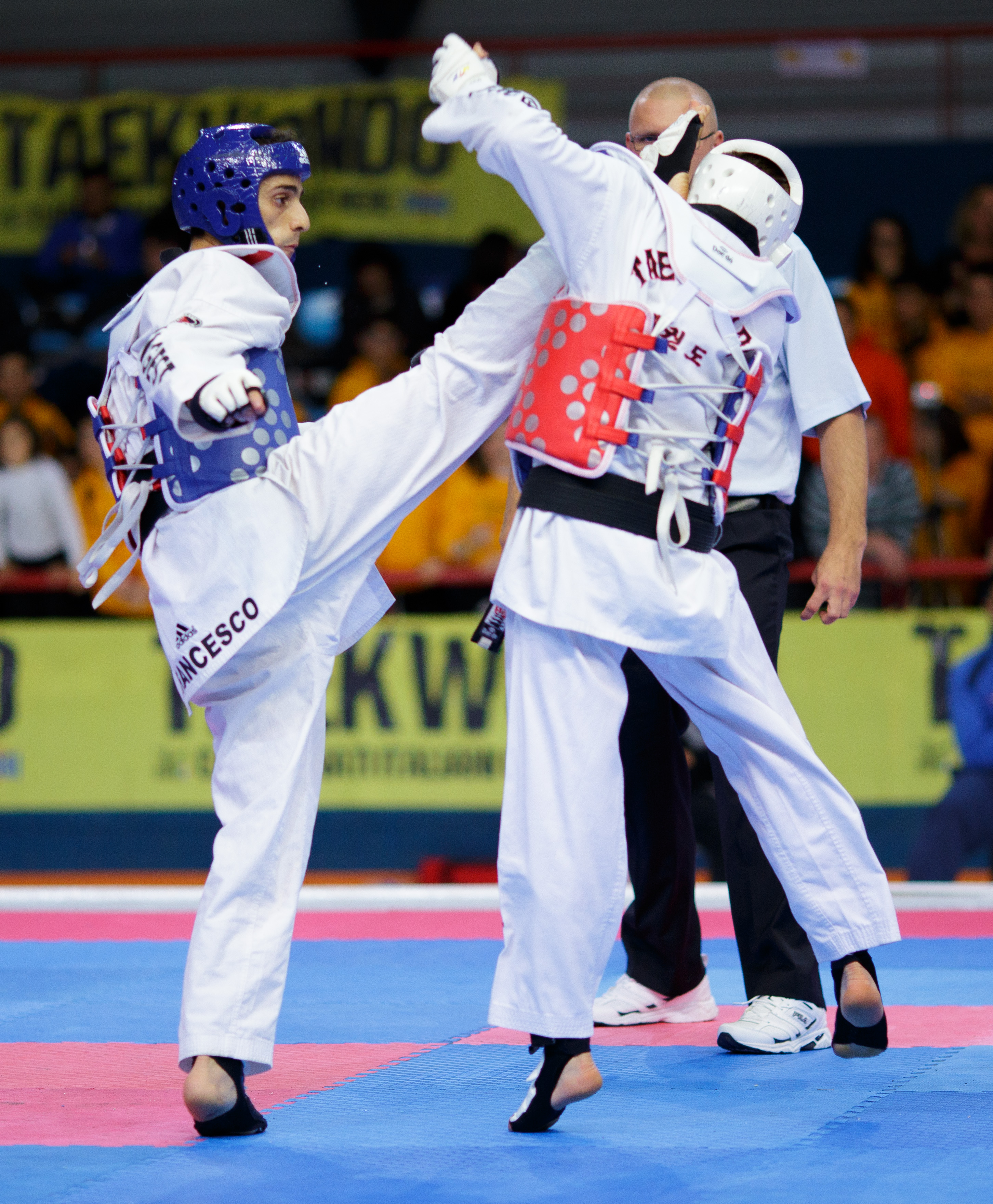 Italian Taekwondo Championships 2013 in Bari